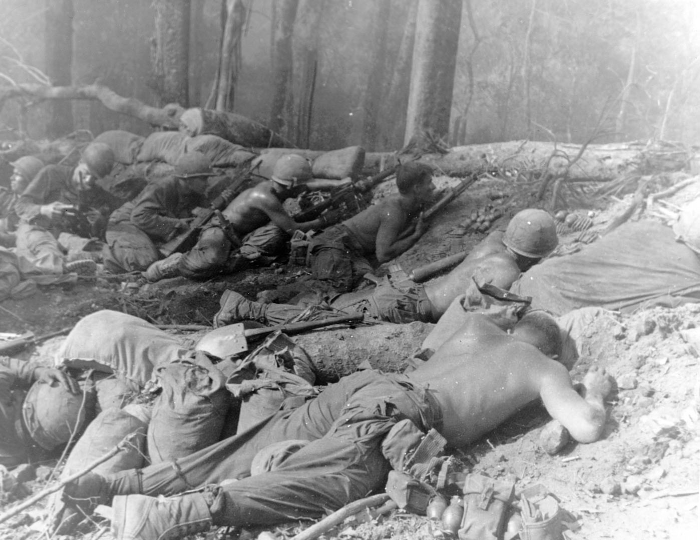 173 Airborne Brigade in a firefight on Hill 823 during the Vietnam War.